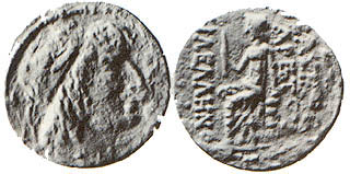 The first Nabataean coins produced, from the mints at Damascus on the order of Aretas III in 85 BCE. Obverse: face of Aretas III in profile. Reverse: Goddess of the City of Damascus, sitting.